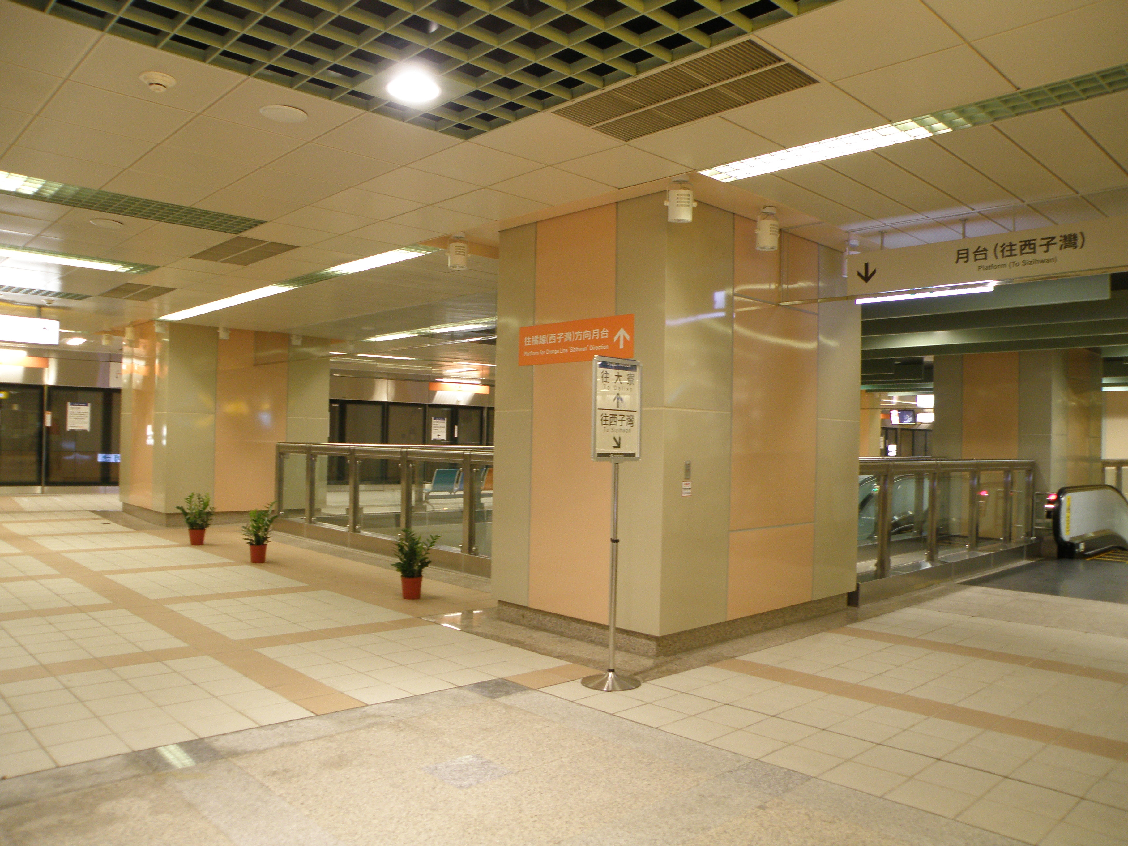 Dadong Station is the only station which have Double-Decked Side Platforms in Kaohsiung Mass Rapid Transit